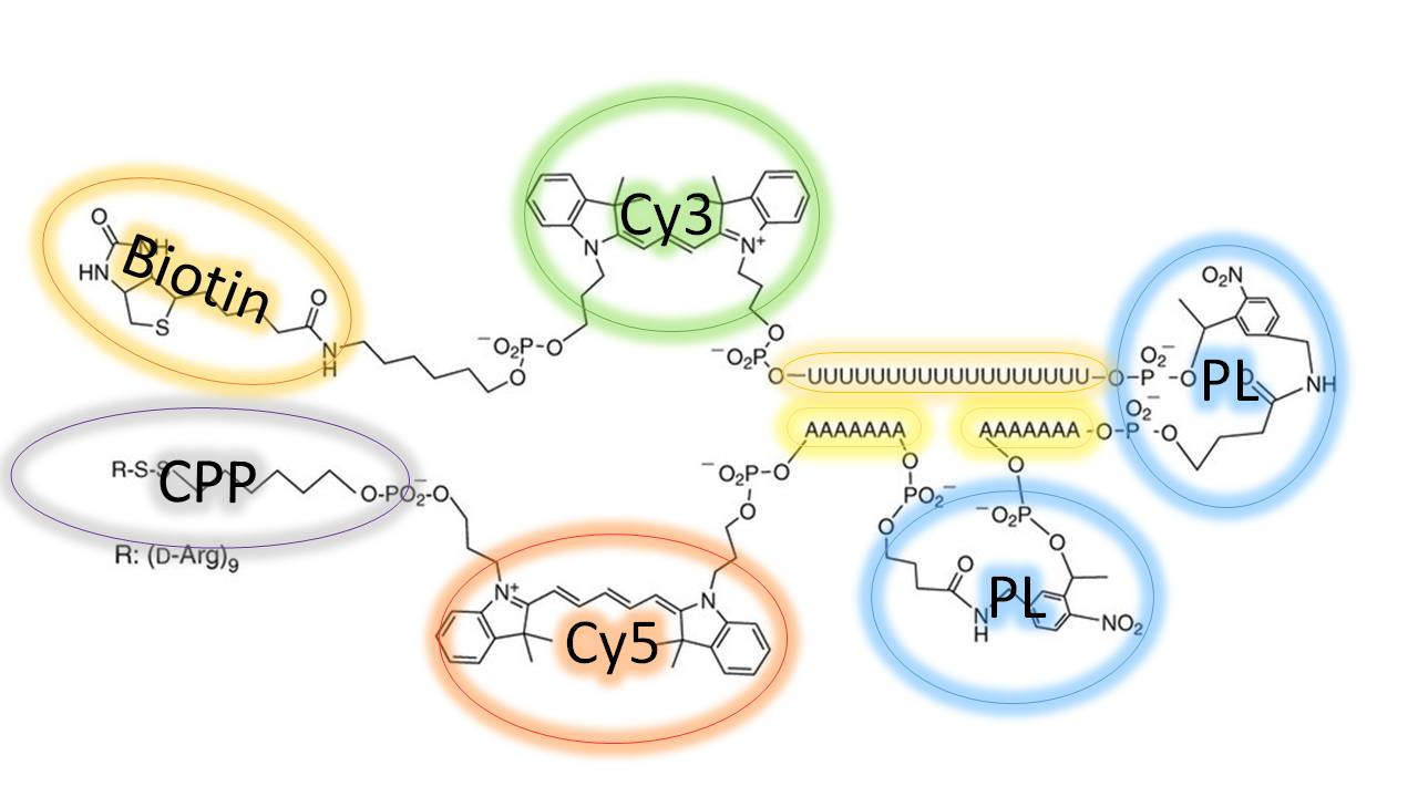 File is a chemical structure structure of a TIVA tag before photoactivation. Adapted from